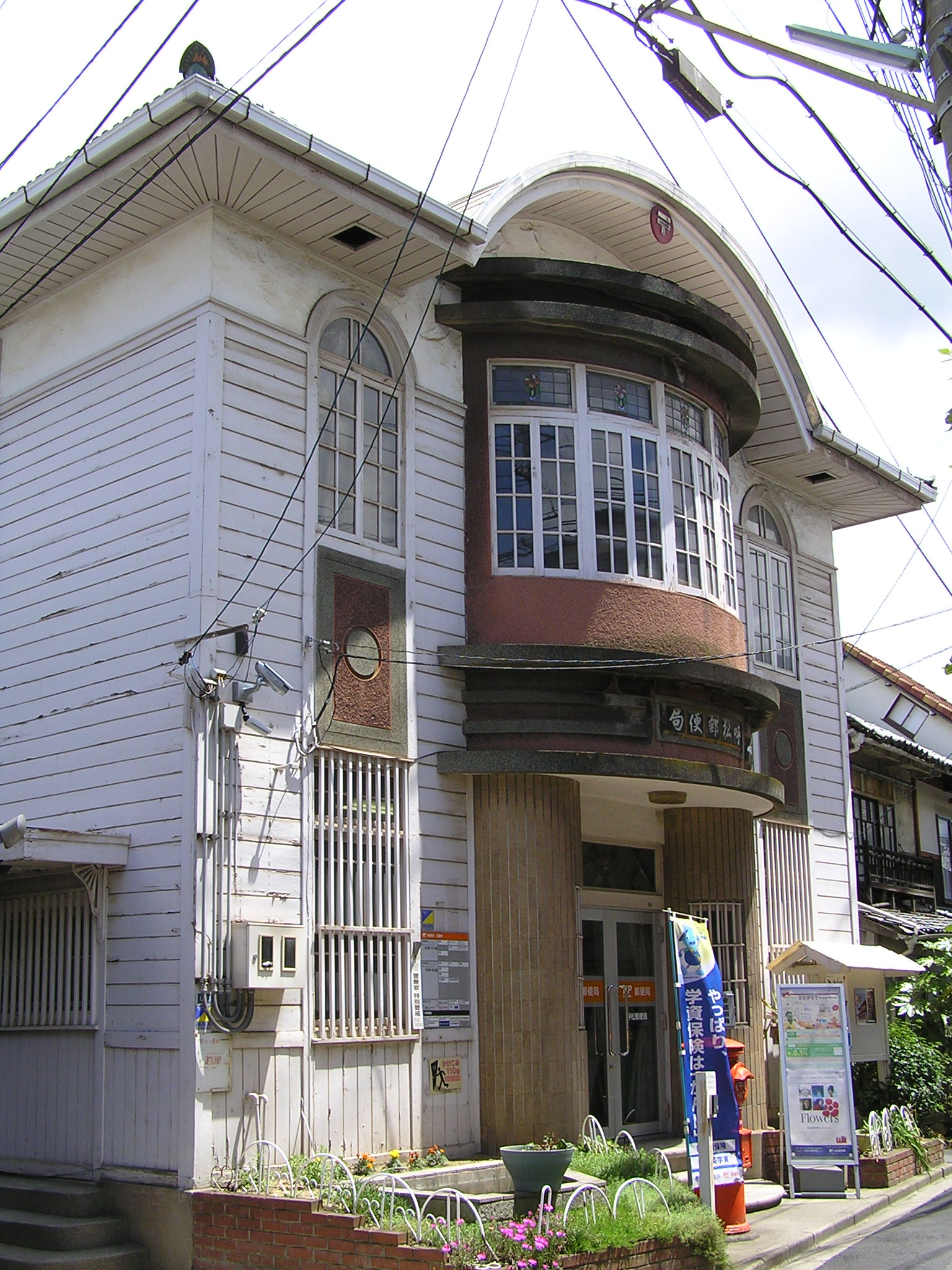 Yobimatu post office in Kurashiki built in Taisho Period